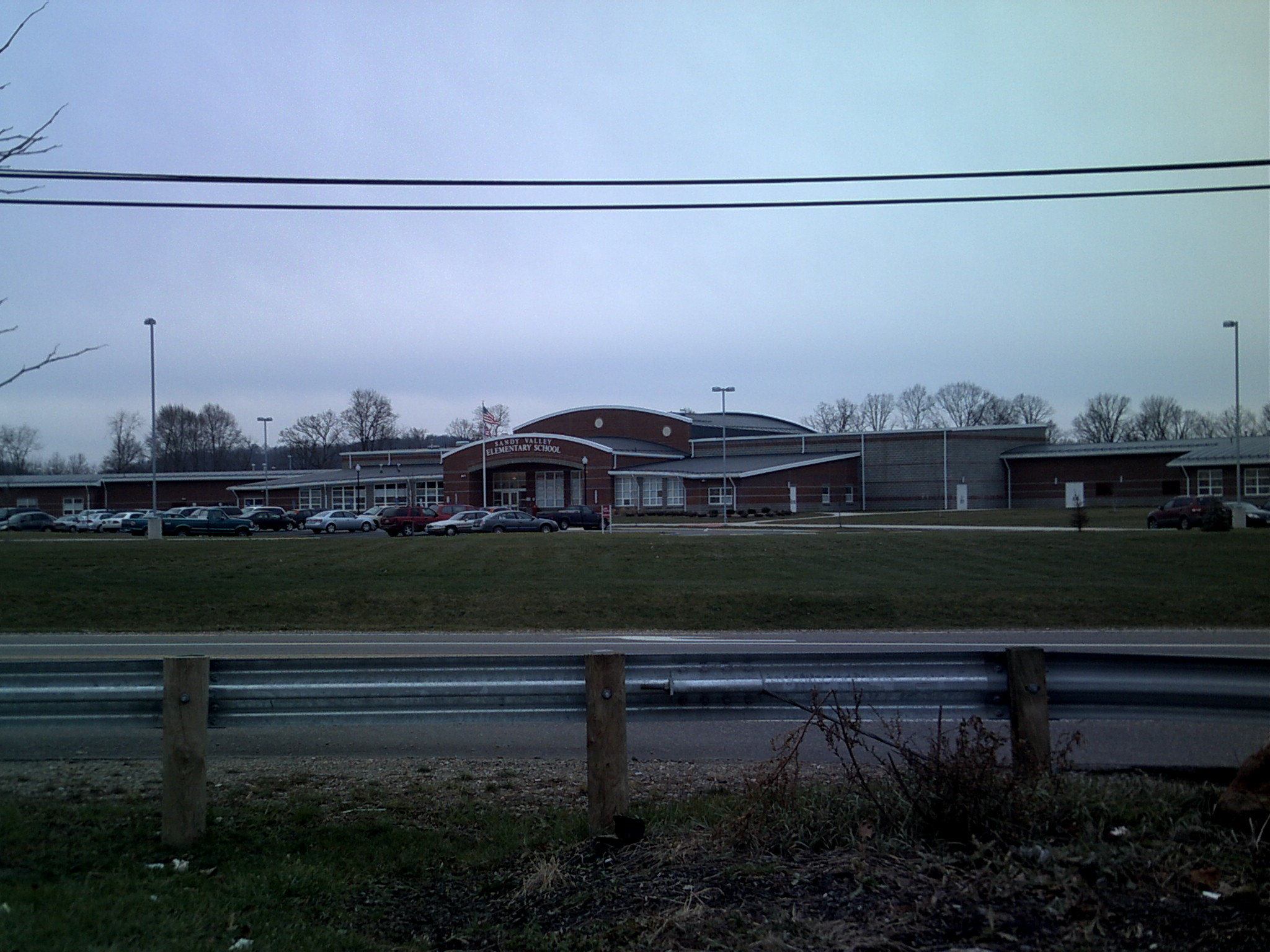 taken December 2009